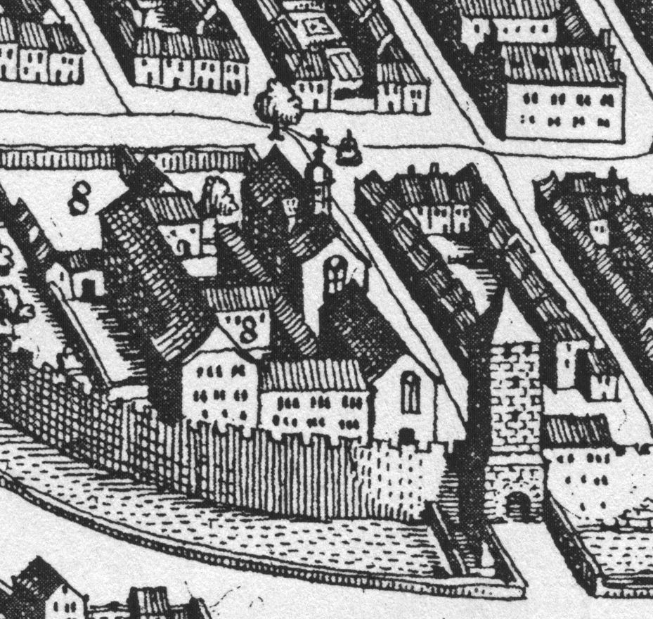 Detailed view of the Prediger gate and the Dominican monestary behind the city wall